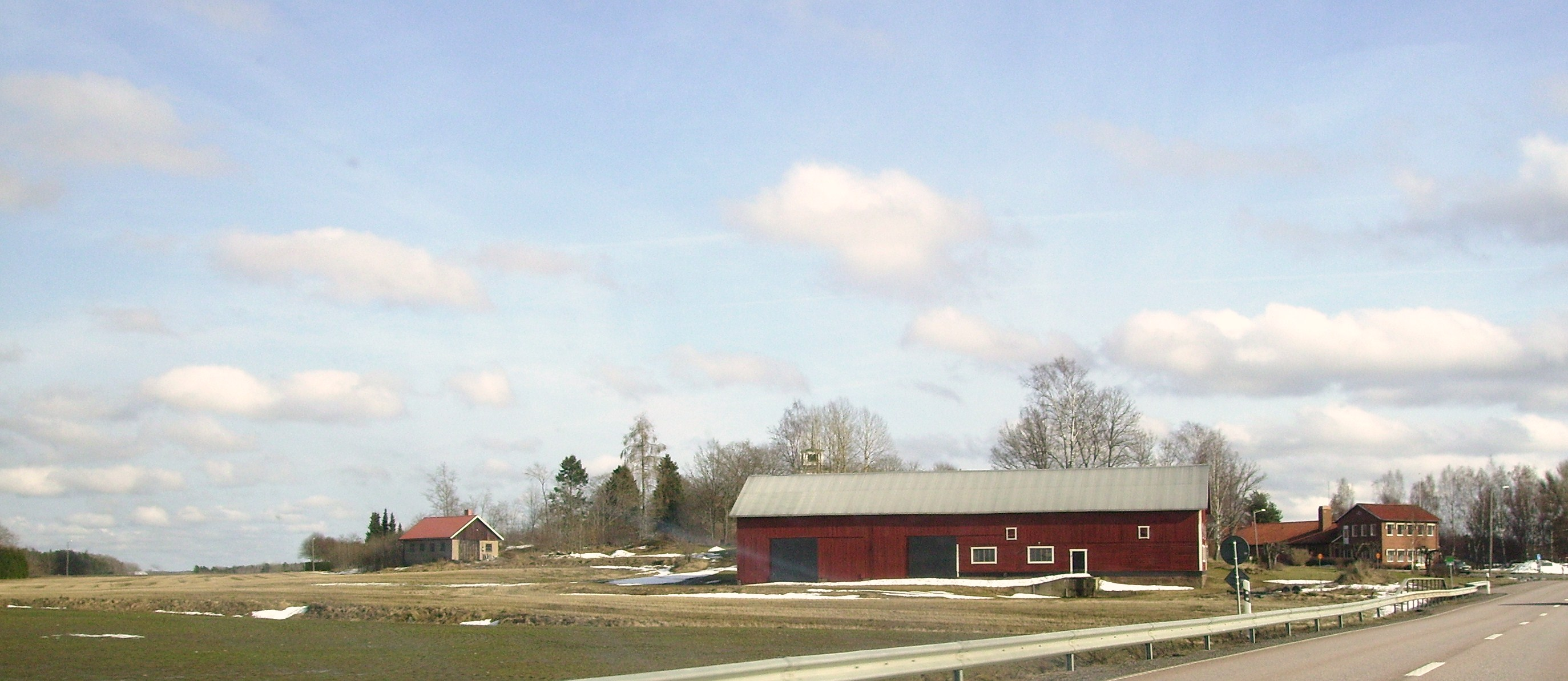 Picture of Ärla, little place in Eskilstuna kommun